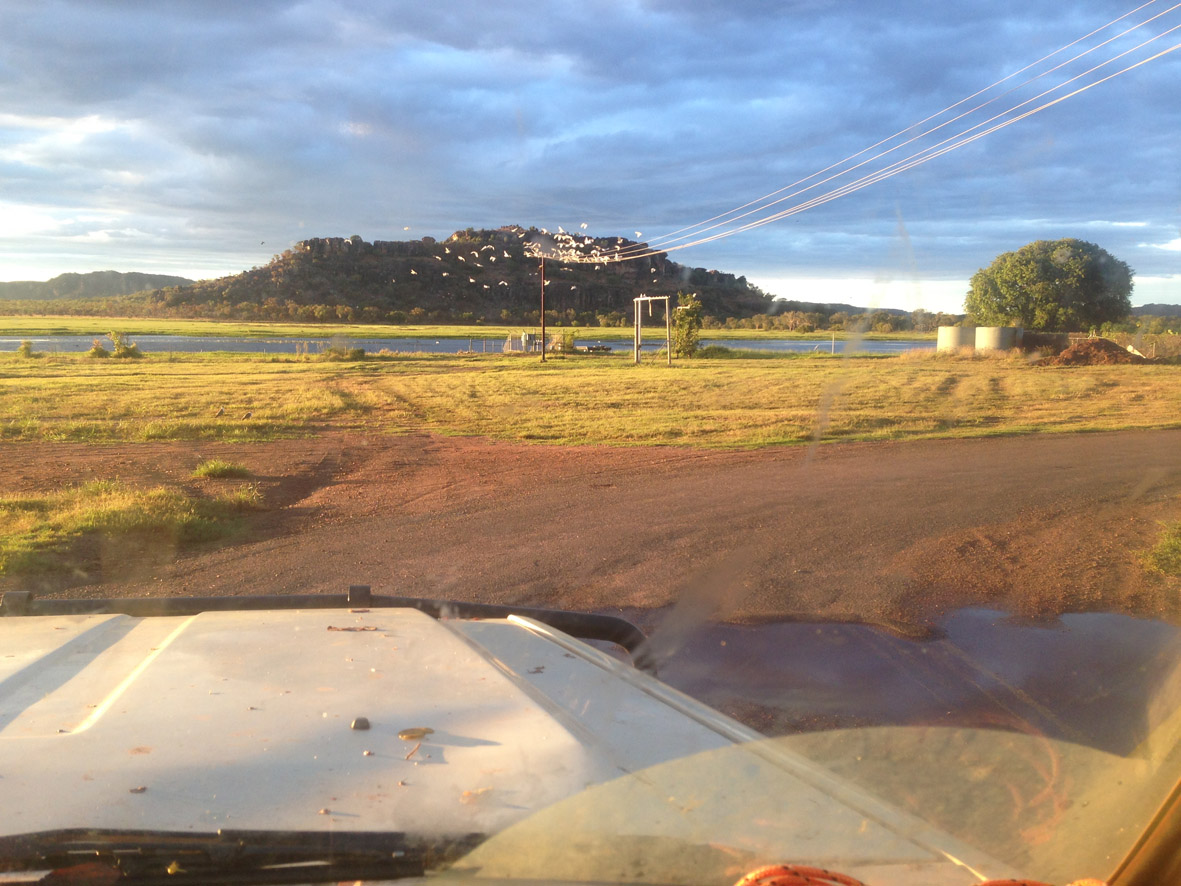 Injalak Hill in Gunbalanya, NT, Australia